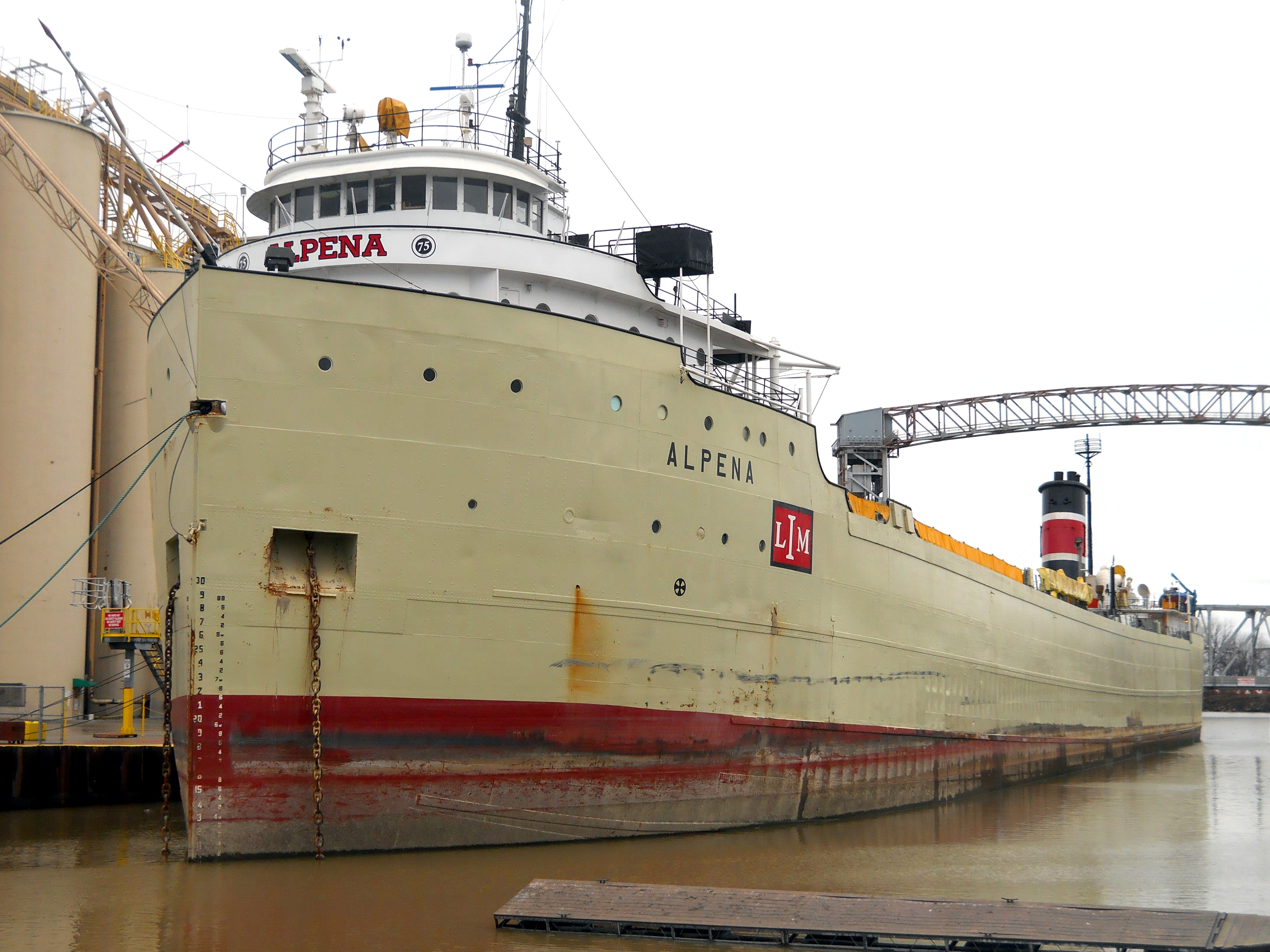 Alpena ex Leon Fraser in Cleveland, Ohio in an area known as the flats.